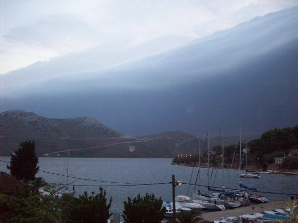 Approaching storm over the island Rava, Croatia